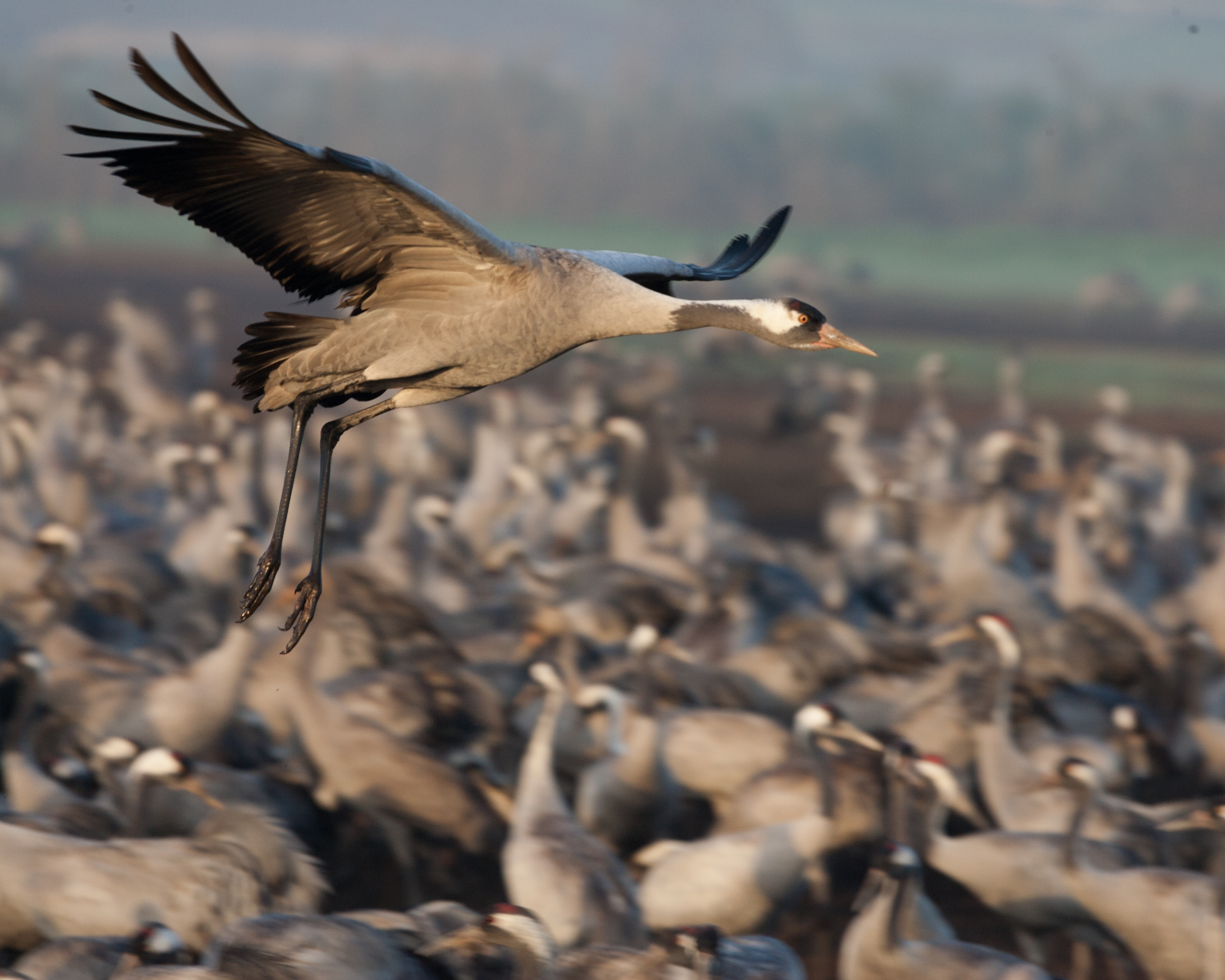 Common crane at Hula Valley in Israel